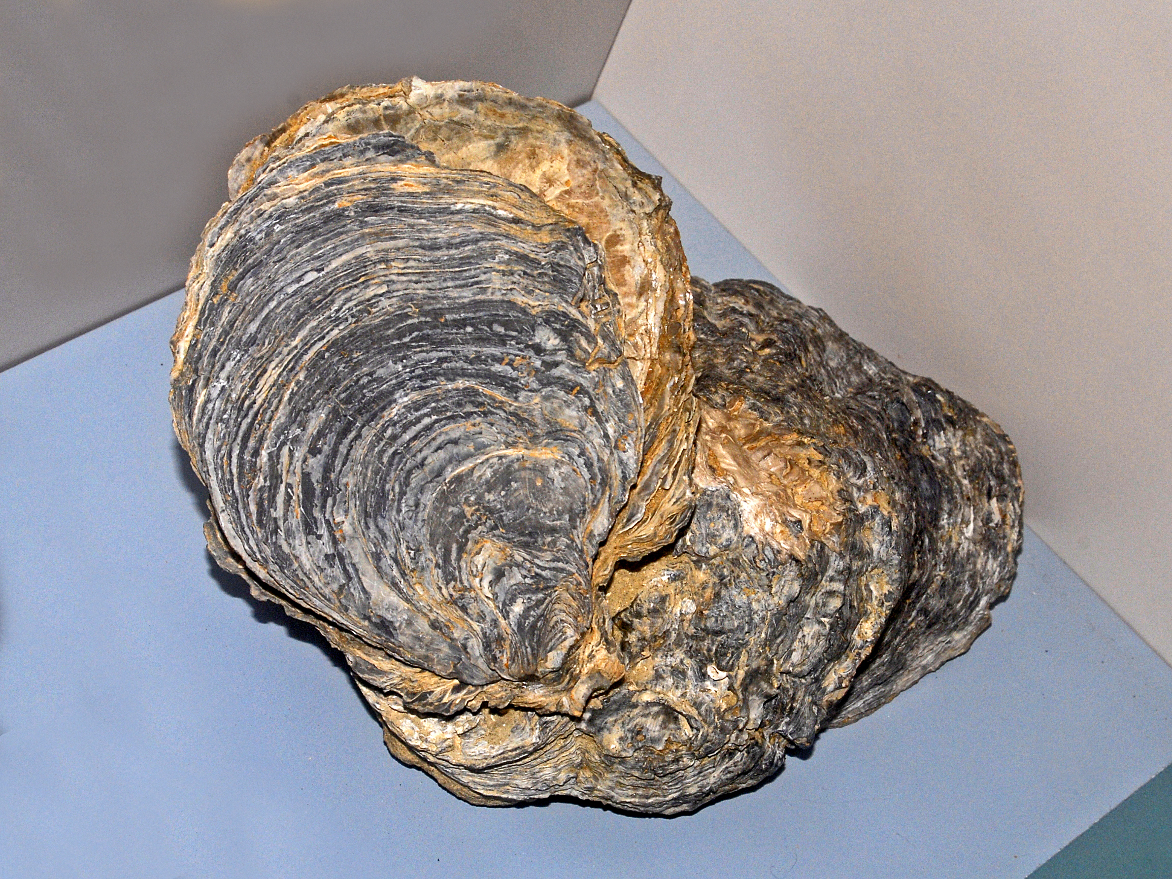 Fossil of Ostrea edulis from Pliocene of Italy, on display at the Museo Paleontologico Giulio Maini, Ovada